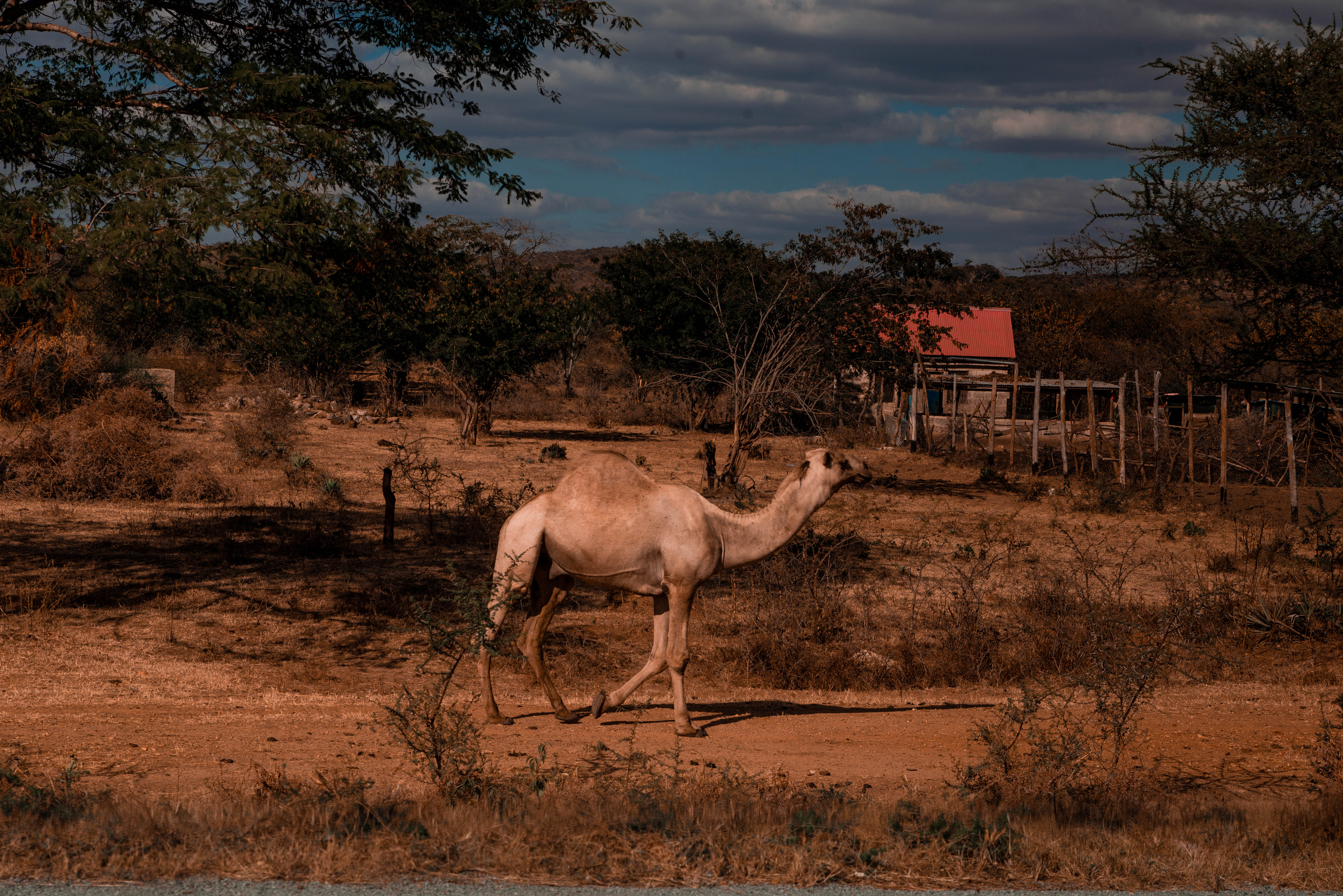 Camels' ability to withstand extreme temperatures makes them invaluable in the desert. This is an image with the theme "Africa on the Move or Transport" from: Tanzania